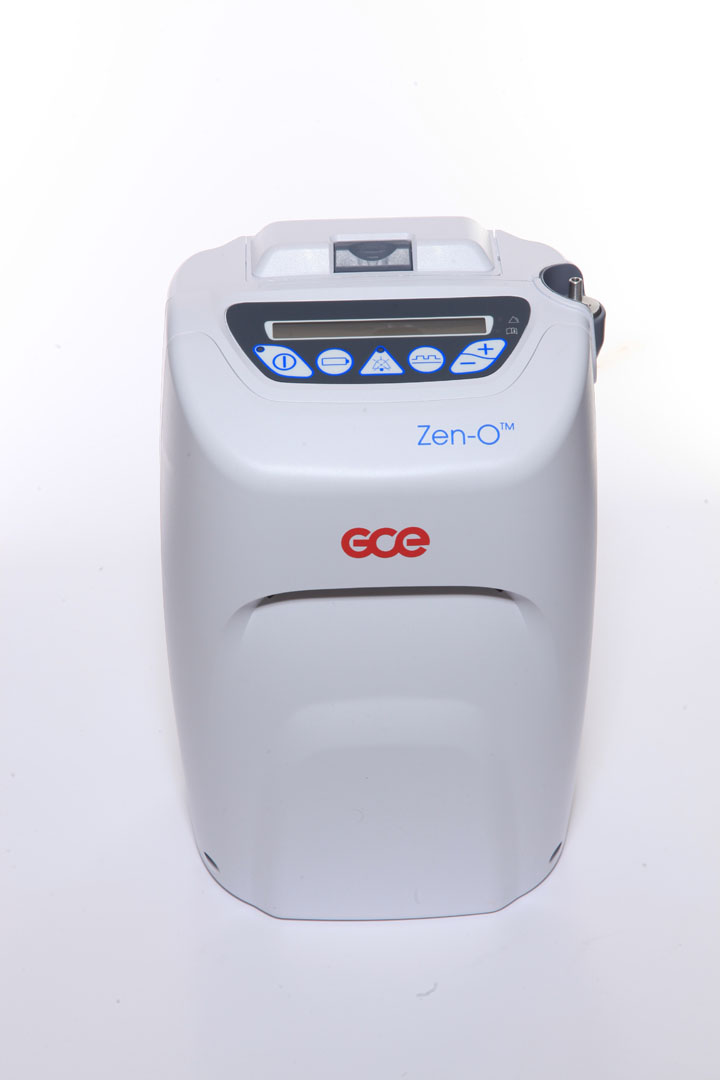 Zen-O deliver oxygen in both pulse (on-demand) and continuous mode